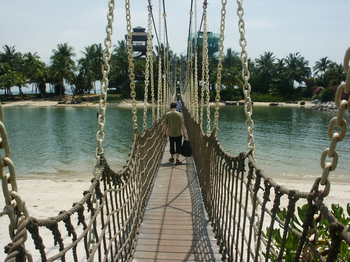 The suspension bridge at Palawan Beach, Sentosa, Singapore.